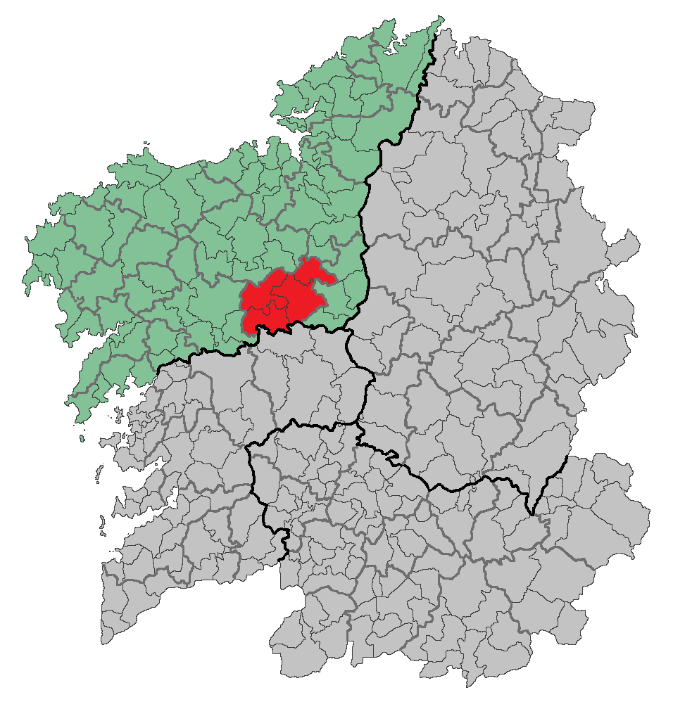 Region of Galicia (Spain)Based in: Image:Location of Arzúa.png Source: Designed by Leoplus. Original picture, designed by Caiser.